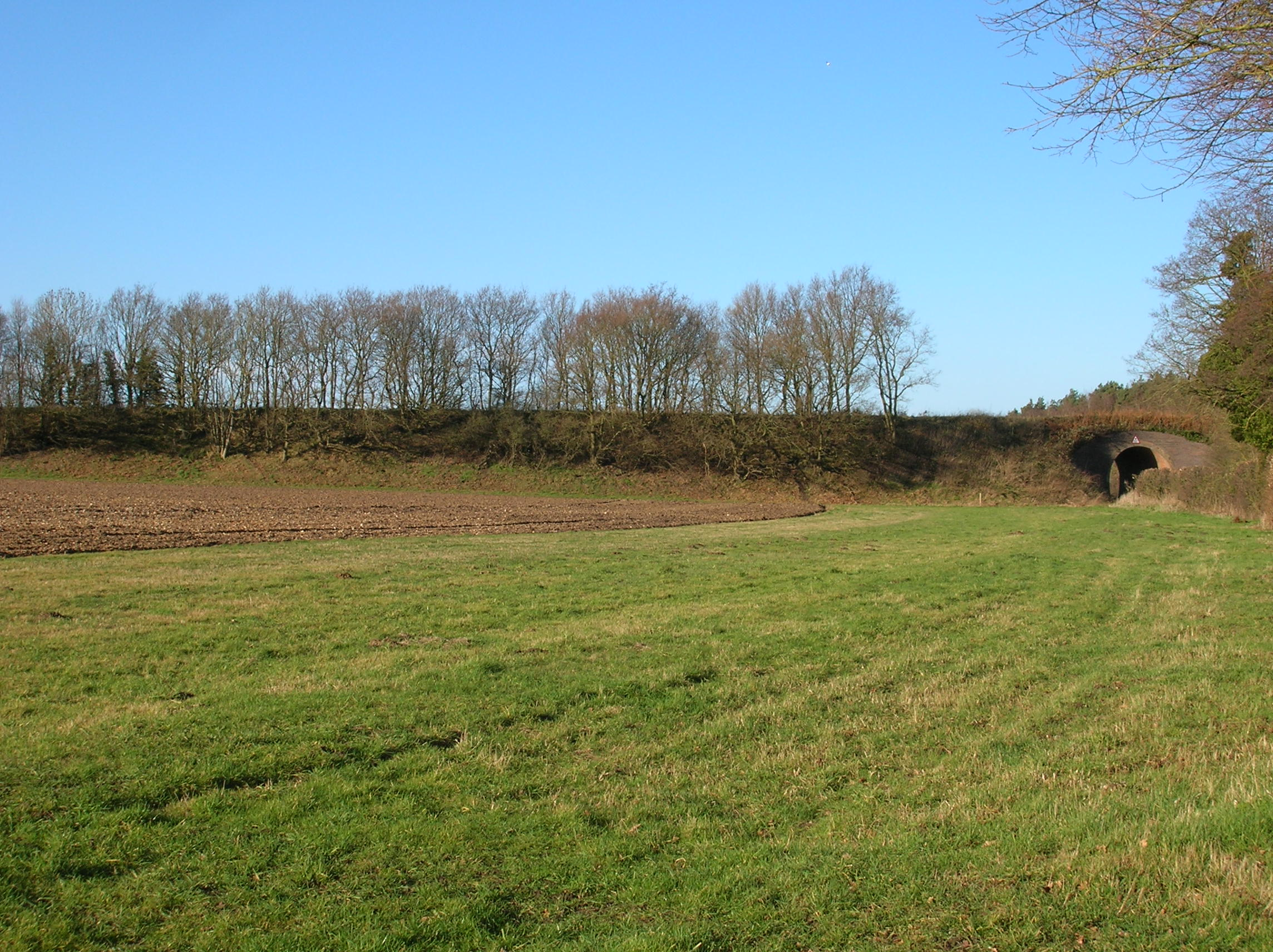 The former M&GN Cromer Beach branch near Stody. Proposed for restoration as part of the Norfolk Orbital Railway.